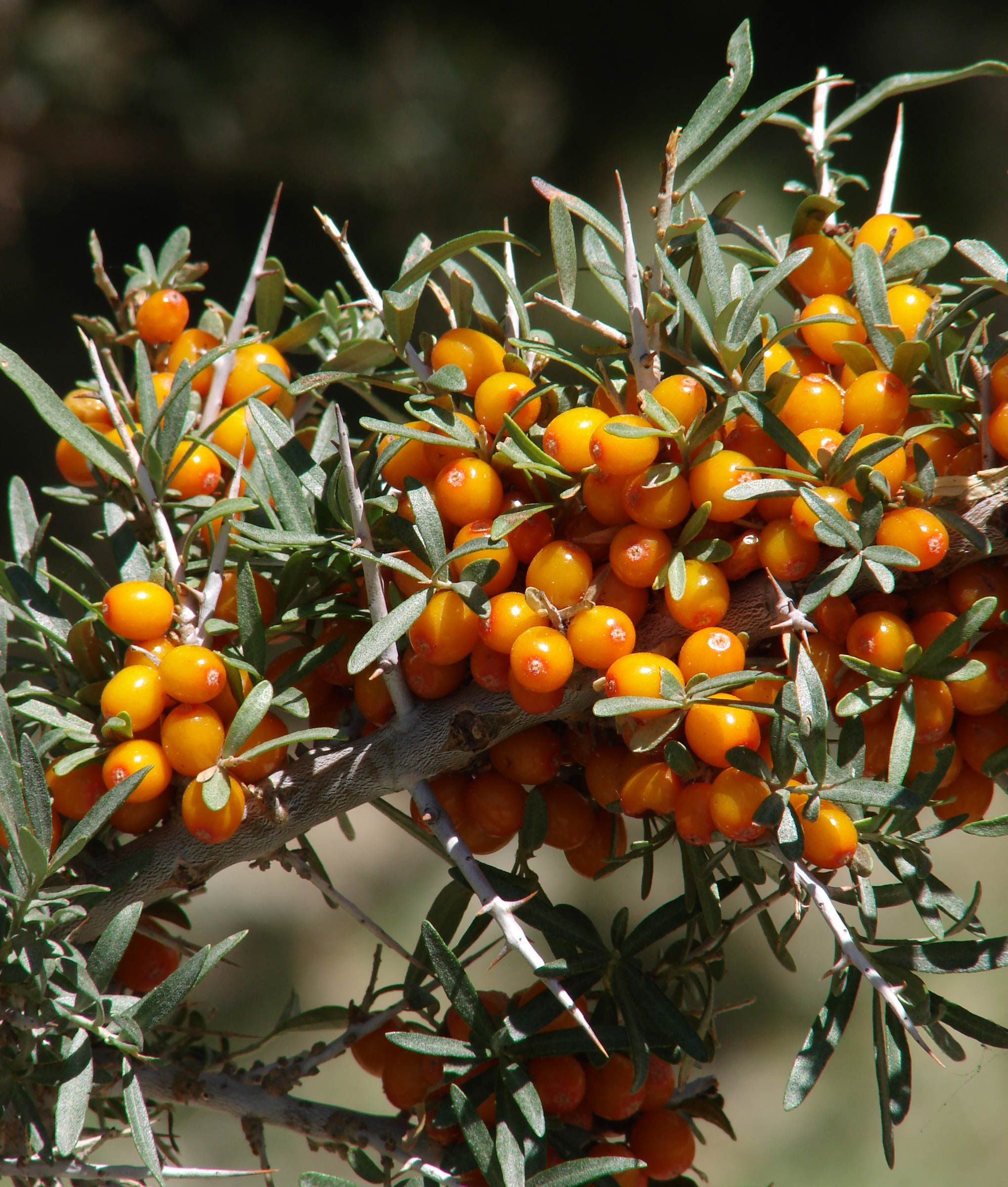 Dodge the thorns to reach the berries! Seabuckthorn berries (Hippophae rhamnoides) have a formidable arsenal of thorns, the locals simply shake the bush and collect the berries :)